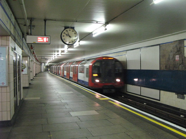 Redbridge tube station, westbound platform. The "underground" clock on this platform appears to have an additional O on the hour hand, compared with 911383.